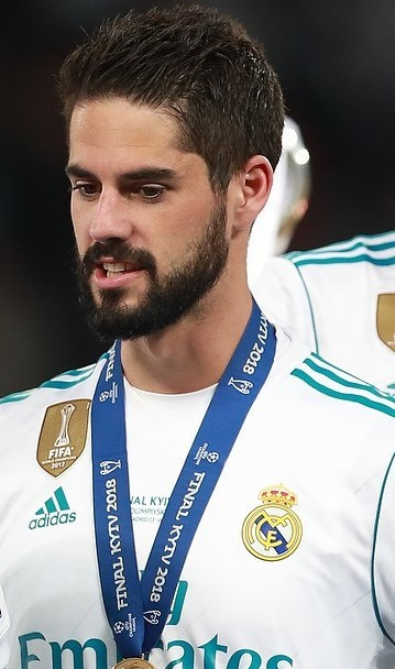 Isco, Casemiro, Theo Hernández ,Zinedine Zidane